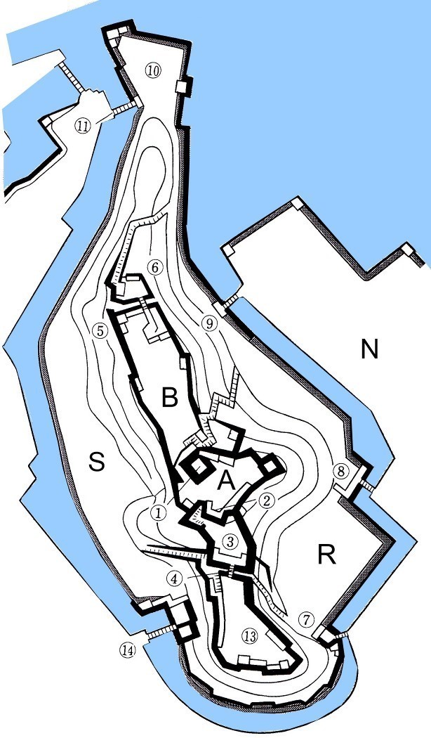 Layout of Hikone castle